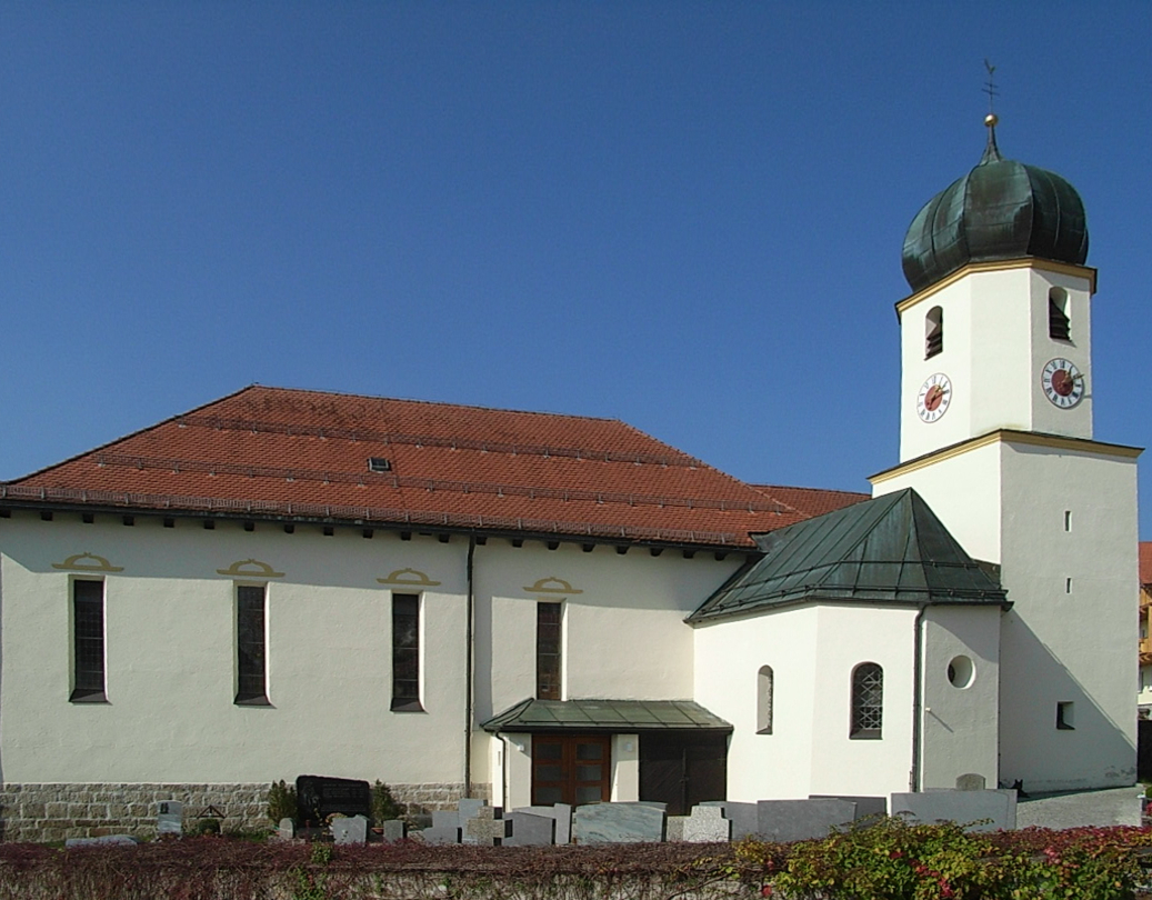 Langdorf, St Mary Magdalene Parish Church from east.